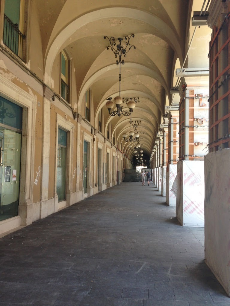 L'aquila